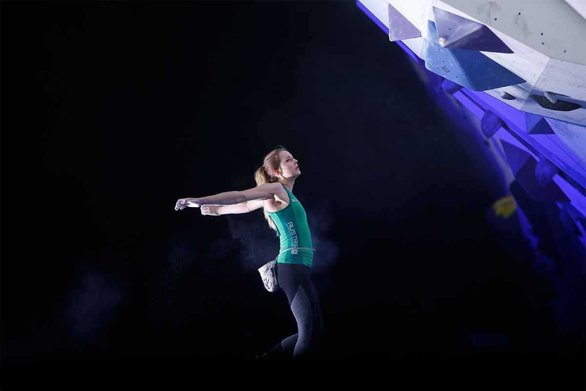 Jessica Pilz in Sochi at the 2017 CISM Winter World Games. Sport climbing